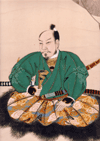 Kikuchi Takekane